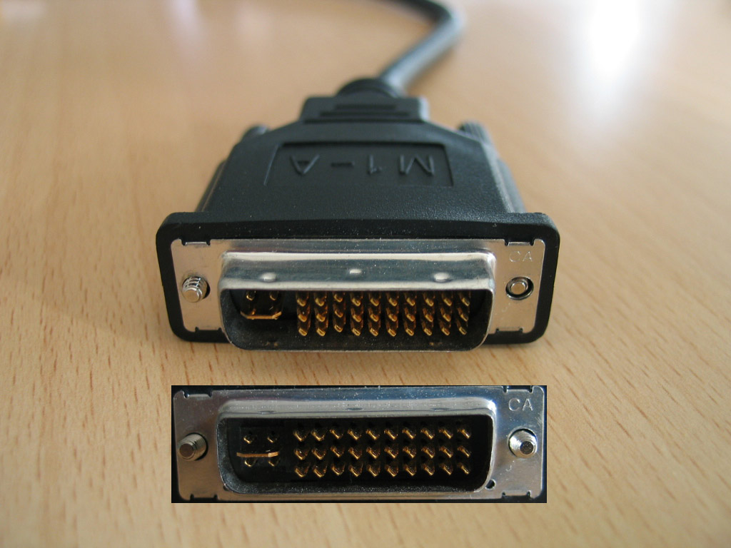 Plug and Display (M1) Video Plug with ten Pins per row (Kabel for a Video Projector)